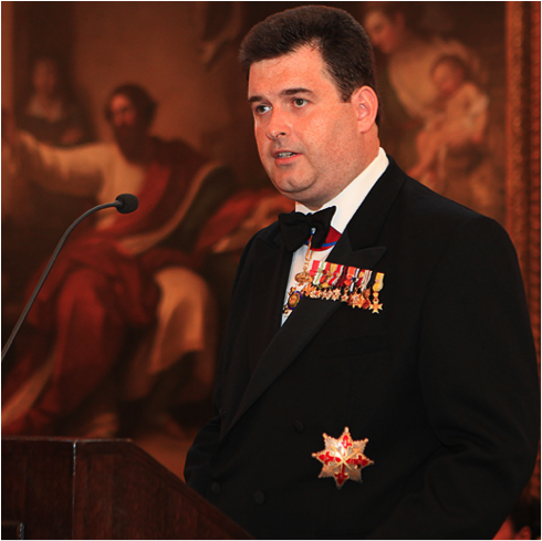 Anthony Bailey OBE GCSS speaks at London 2012 Faith in Sport Olympic Gala Dinner